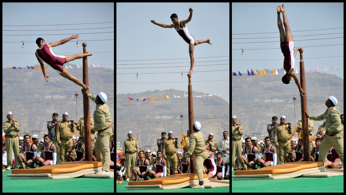 Mallakhamb act in the Sewadal Rally at 45th Statelevel Nirankari Sant Samagam of Maharashtra. Date: January 21, 2012 Location: Airoli, Navi Mumbai, Maharashtra, India